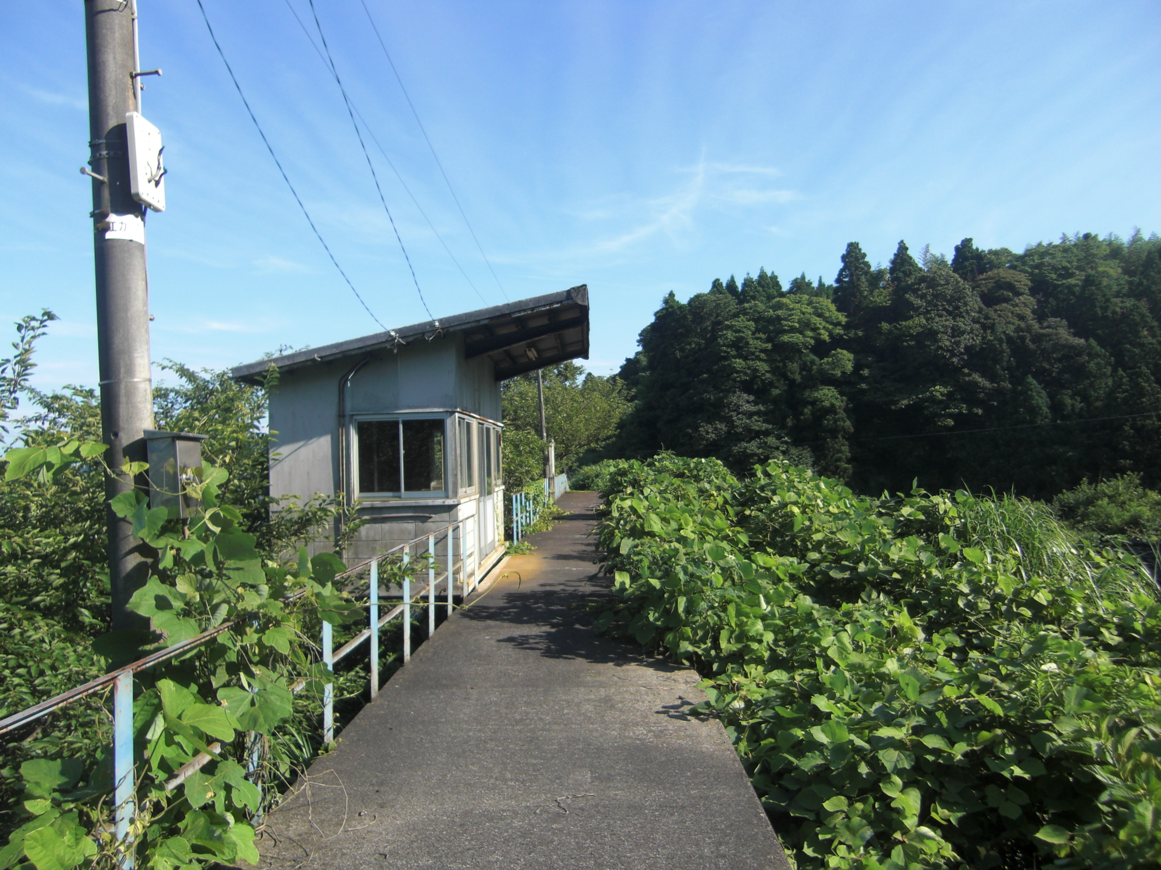 The platform of the former Ushima Station on the Noto Railway Noto Line in Ishikawa Prefecture, Japan